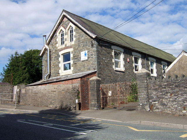 Ysgol Gynradd Blaenffos Blaenffos village school built 1876 in typically uncompromising style.